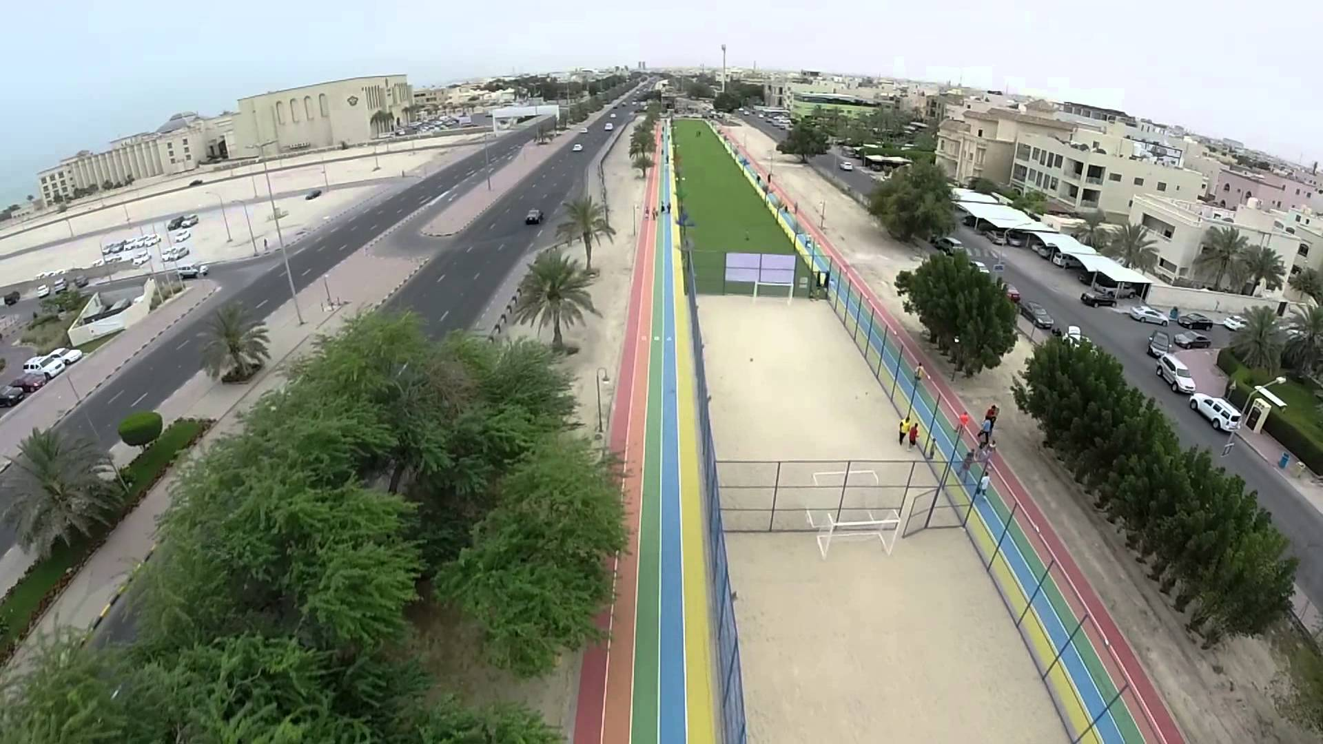 Rumaithiya Walking Track Block 6